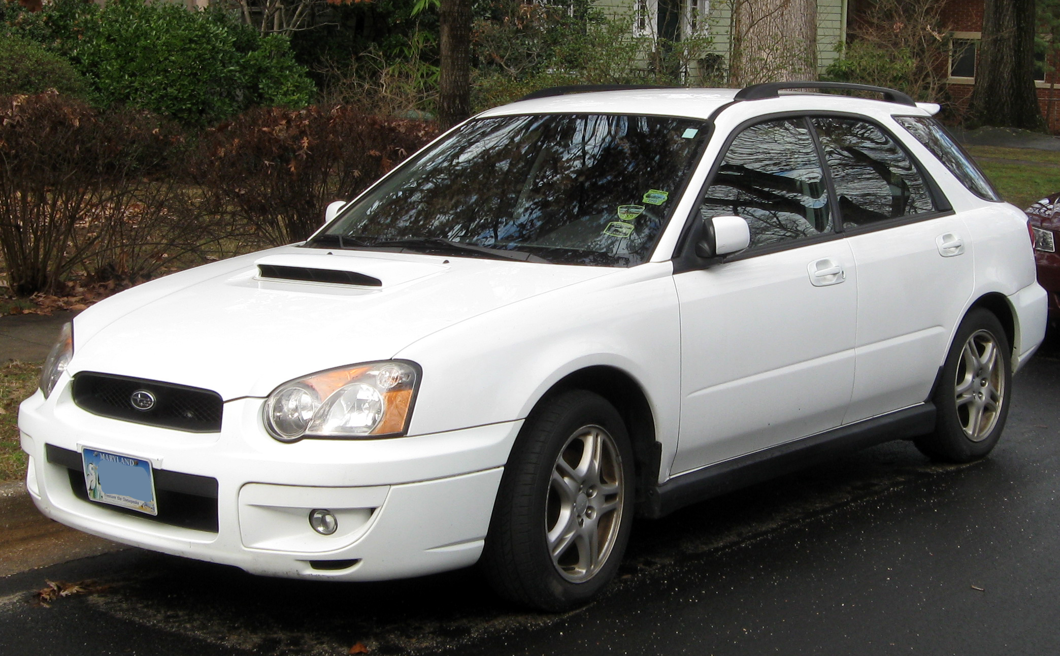 2004-2005 Subaru WRX photographed in Chevy Chase, Maryland, USA.